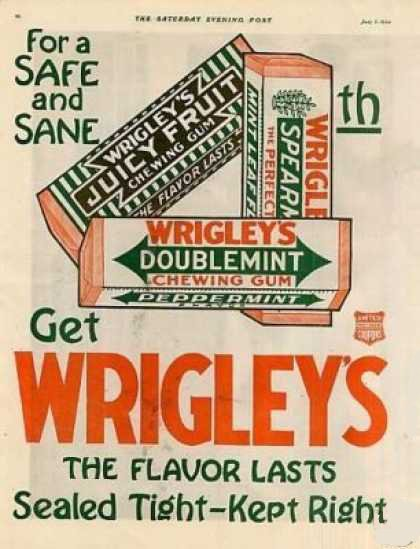 July 4th ad for Wrigley's chewing gum.